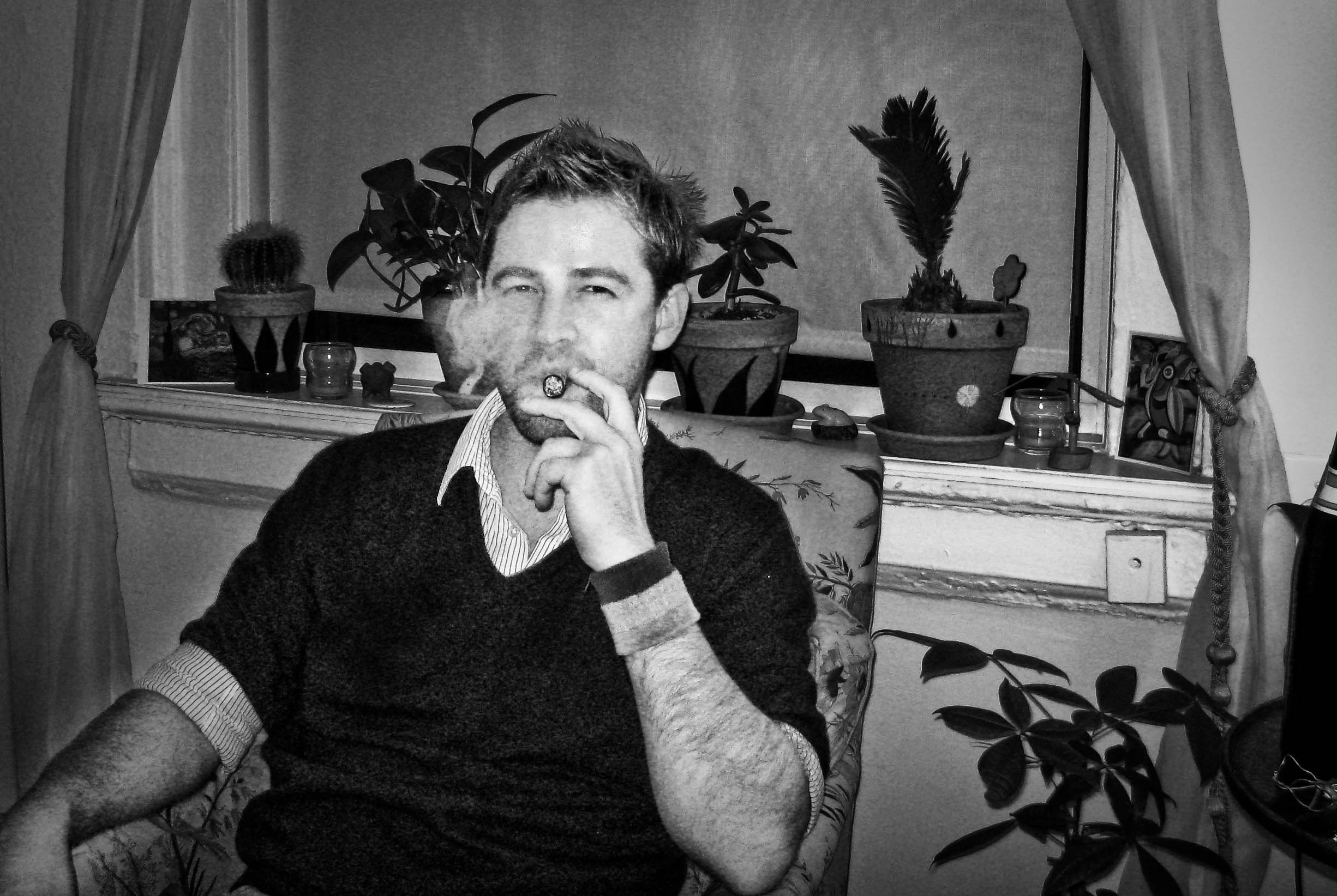 Photo of Michelle J. Wong